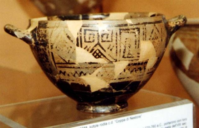 Nestor's Cup from Ischia, Museo Archeologico di Pitecusa